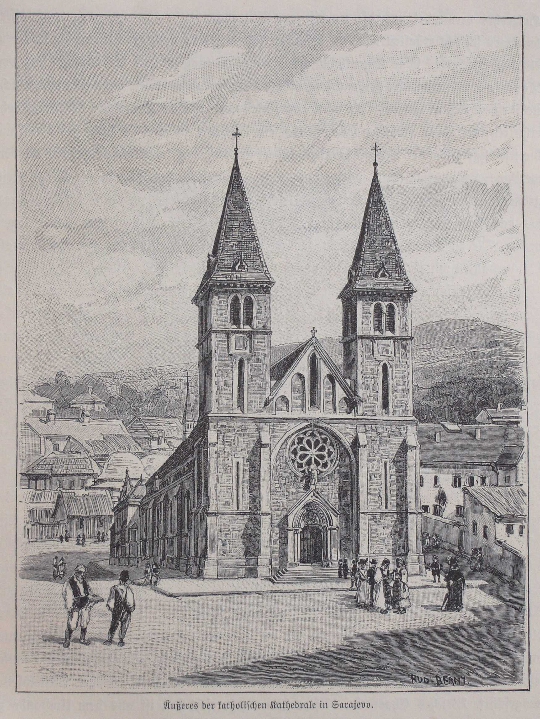 Catholic church in Sarajevo approx. 1900.